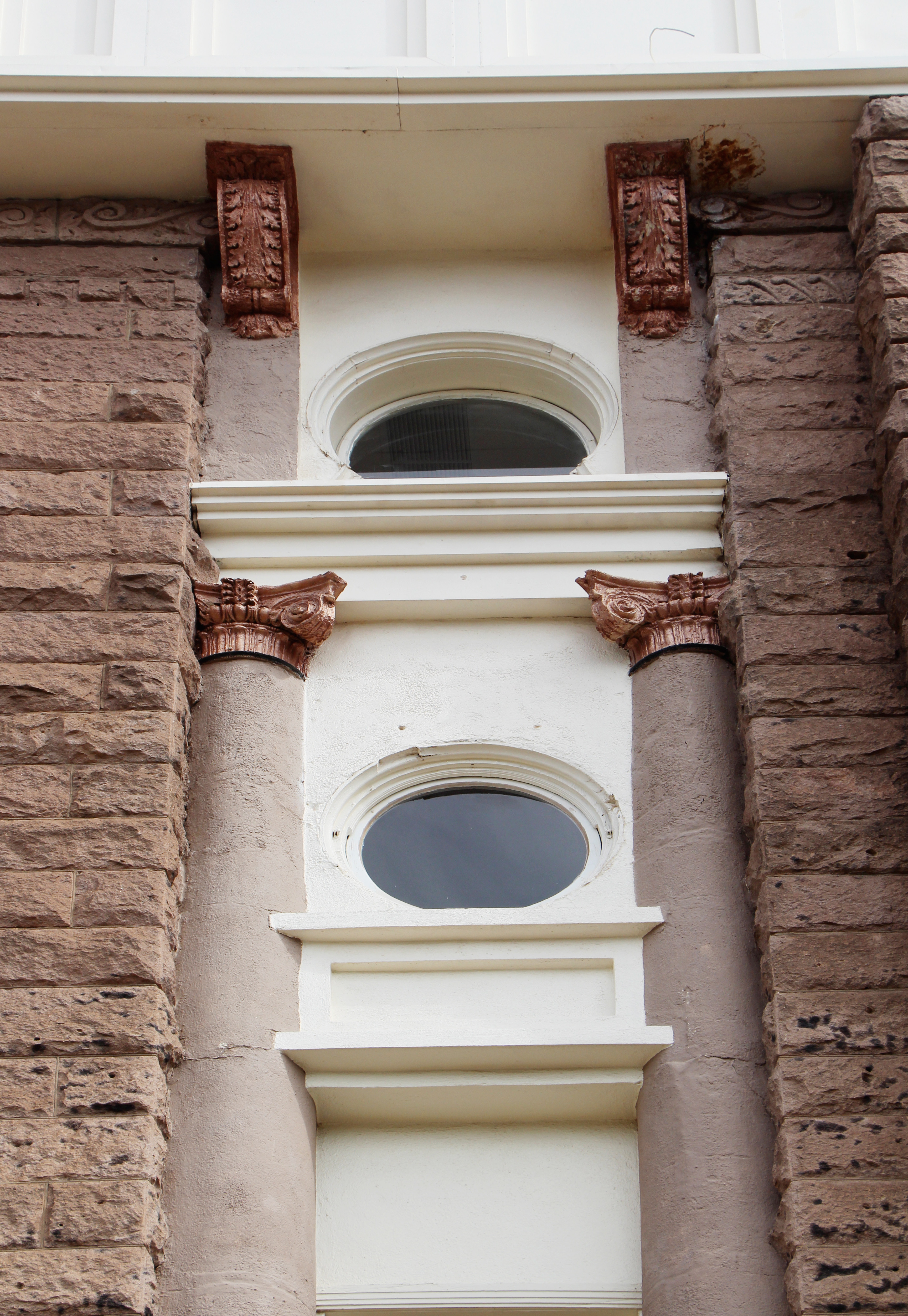 Gila County Courthouse, Detail, Globe, AZ